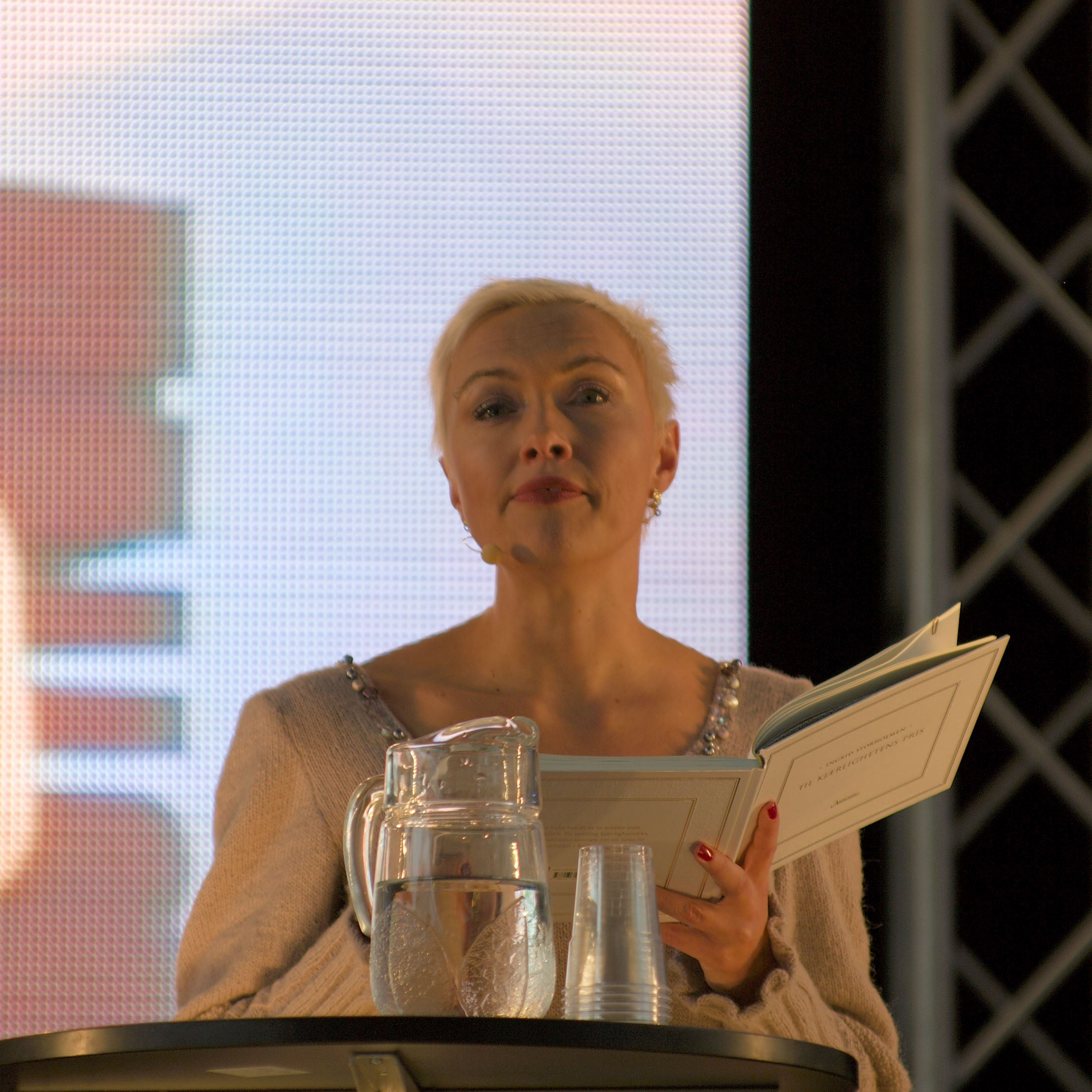 Norwegian poet Ingrid Storholmen at the Oslo book festival 2011